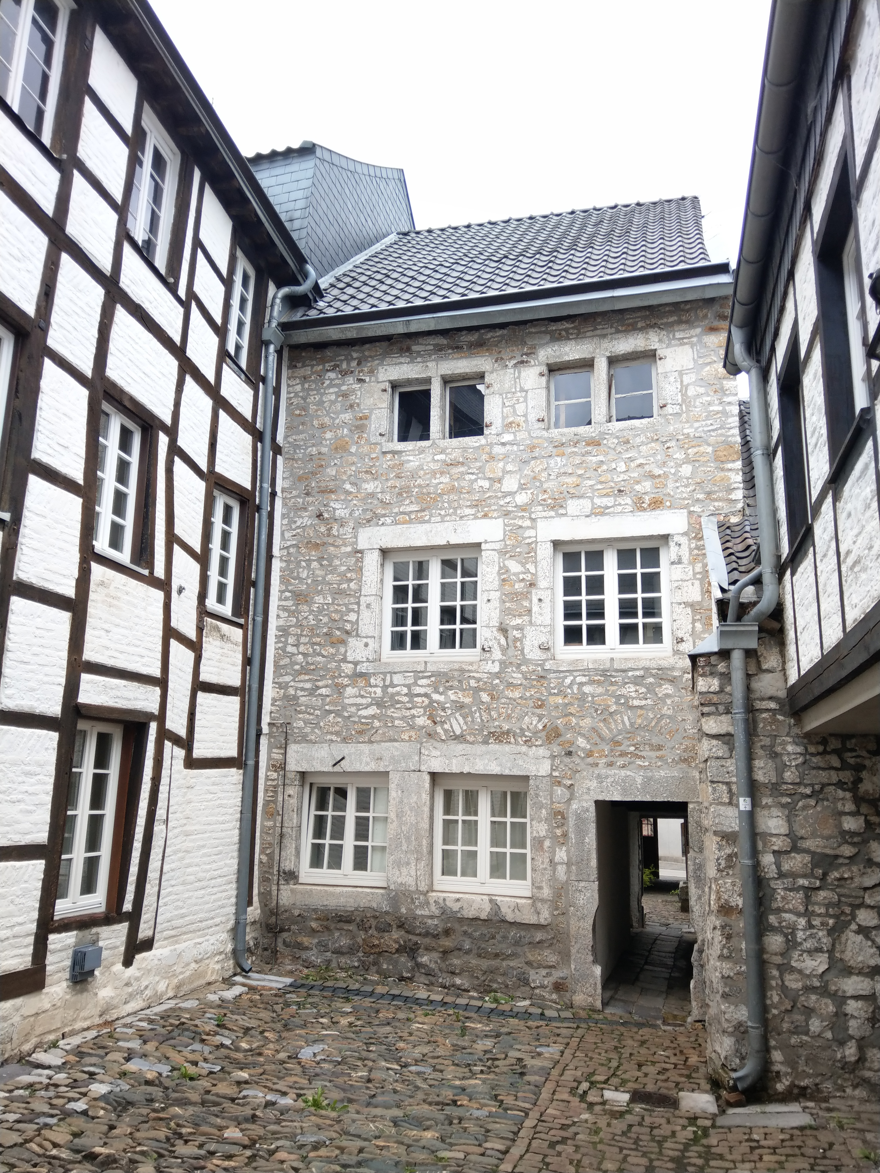 Explanations and history, see category